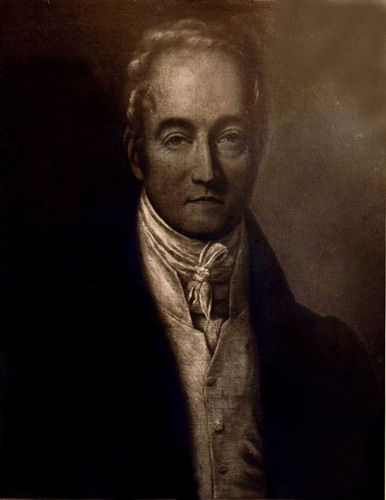 I am a direct descendant of the subject, and this image is scanned from a family photograph, which I own, of the original portrait, which was created in the 1820s. The two-dimensional work of art depicted in this image is in the public domain in the United States and in those countries with a copyright term of life of the author plus 100 years. This photograph of the work is also in the public domain in the United States (see Bridgeman Art Library v. Corel Corp.).